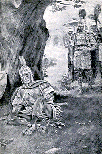 Agesilaus (left) and Pharnabazus (right) [1].Elementary history of Greece, made up principally of stories about persons, givingat the same time a clear idea of the most important events in the ancient world and calculated to enforce the lessons of perseverance, courage, patriotism, and virtue that are taught by the noble lives described. Beginning with the legends of Jason, Theseus, and events surrounding the Trojan War, the narrative moves on to present the contrasting city-states of Sparta and Athens, the war against Persia,their conflicts with each other, the feats of Alexander the Great, and annexation by Rome.